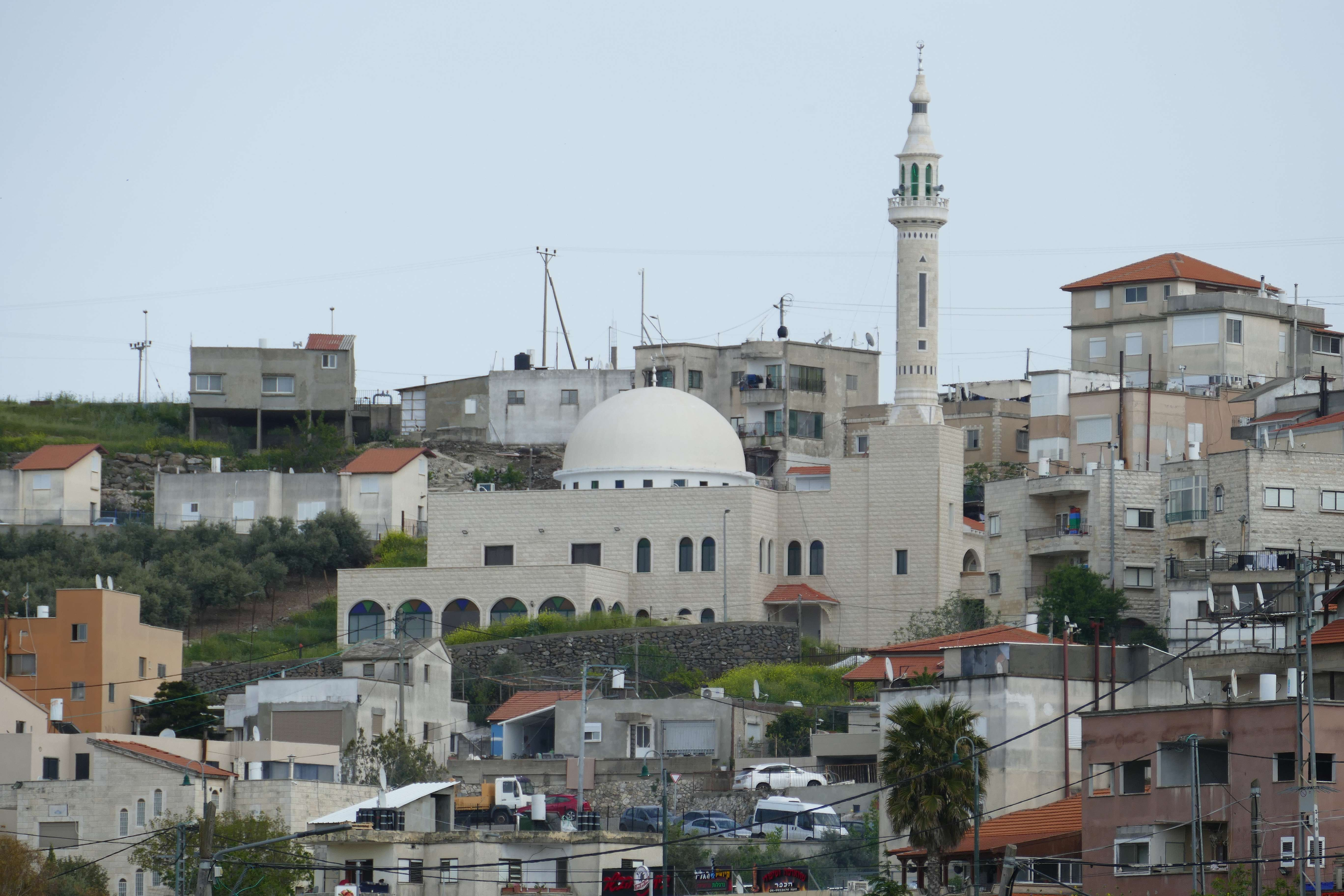 Jish (Gush Halav), Israel.